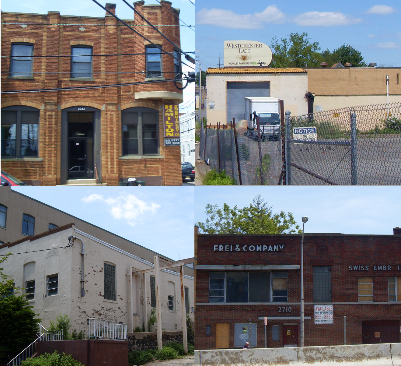 A collage of embroidery factories in north Hudson County, New Jersey